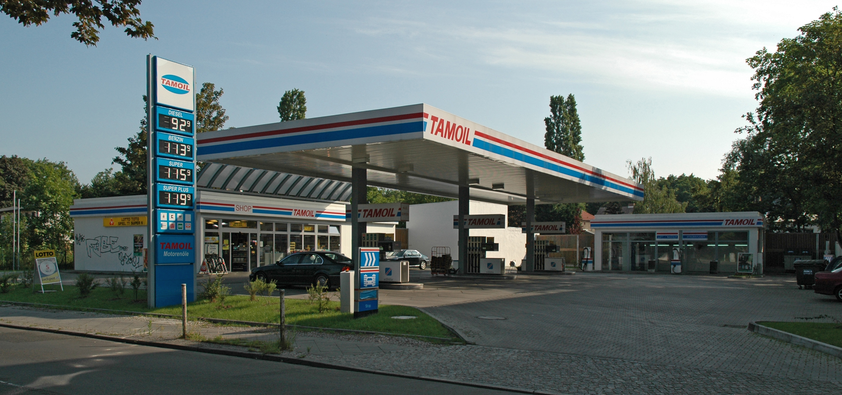 Tamoil station in Berlin-Niederschönhausen.